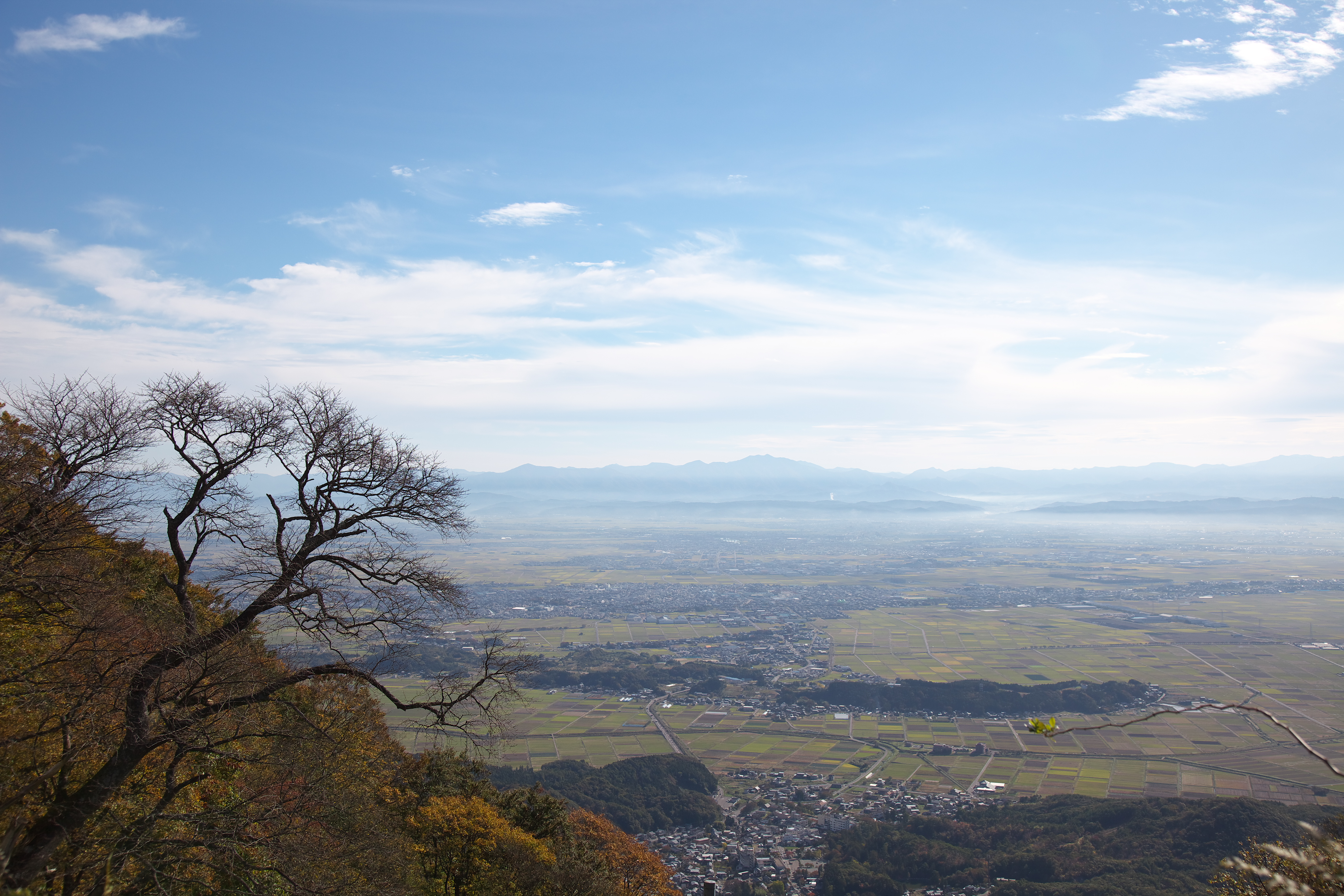 Echigo Plain view from Mount Yahiko, Niigata prefecture